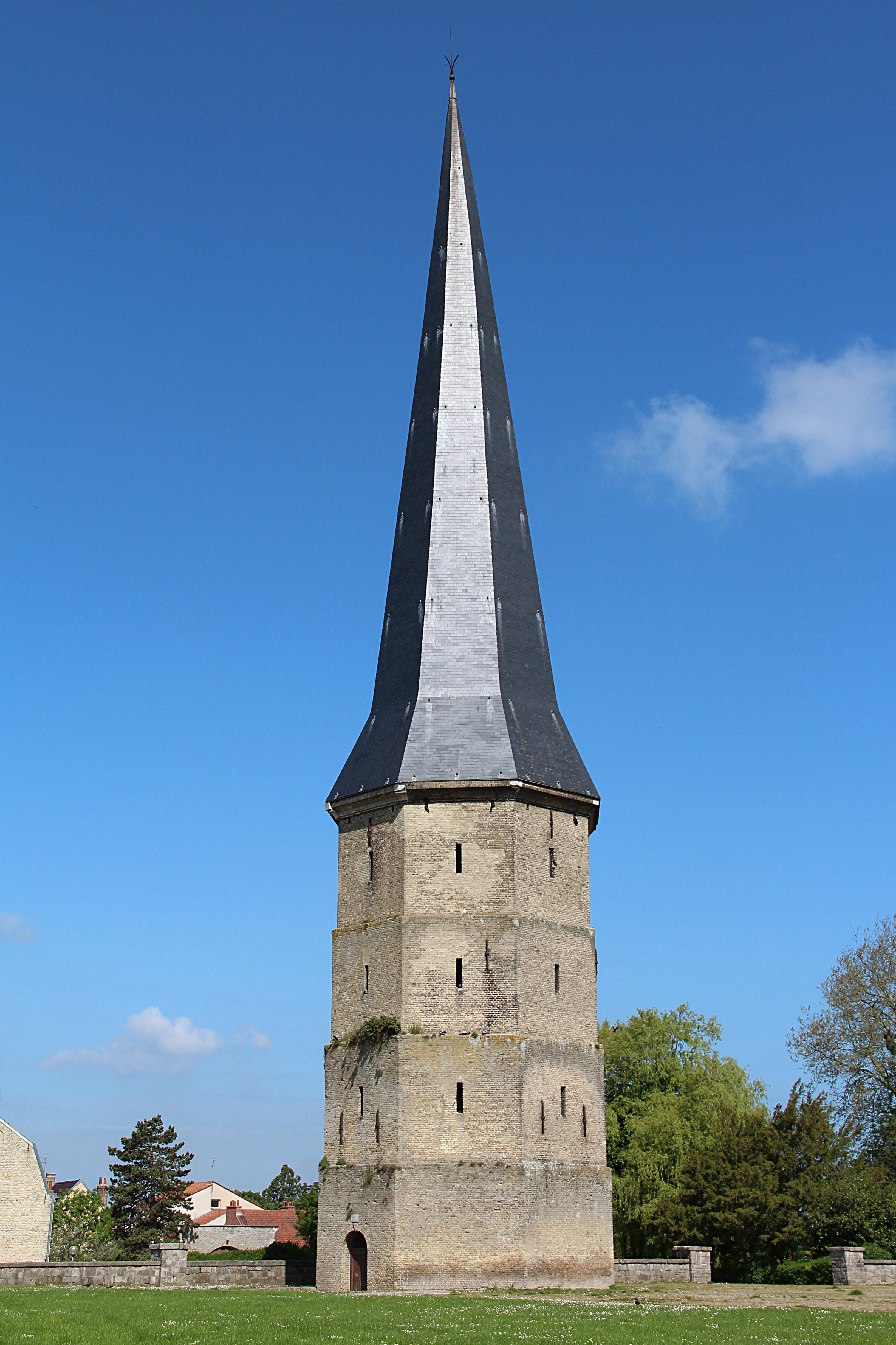 Octagonal tower also called "pointed tower" of the old Saint-Winoc abbey built, destroyed and rebuilt between the 13th and 18th centuries in: Bergues (Nord department, France).